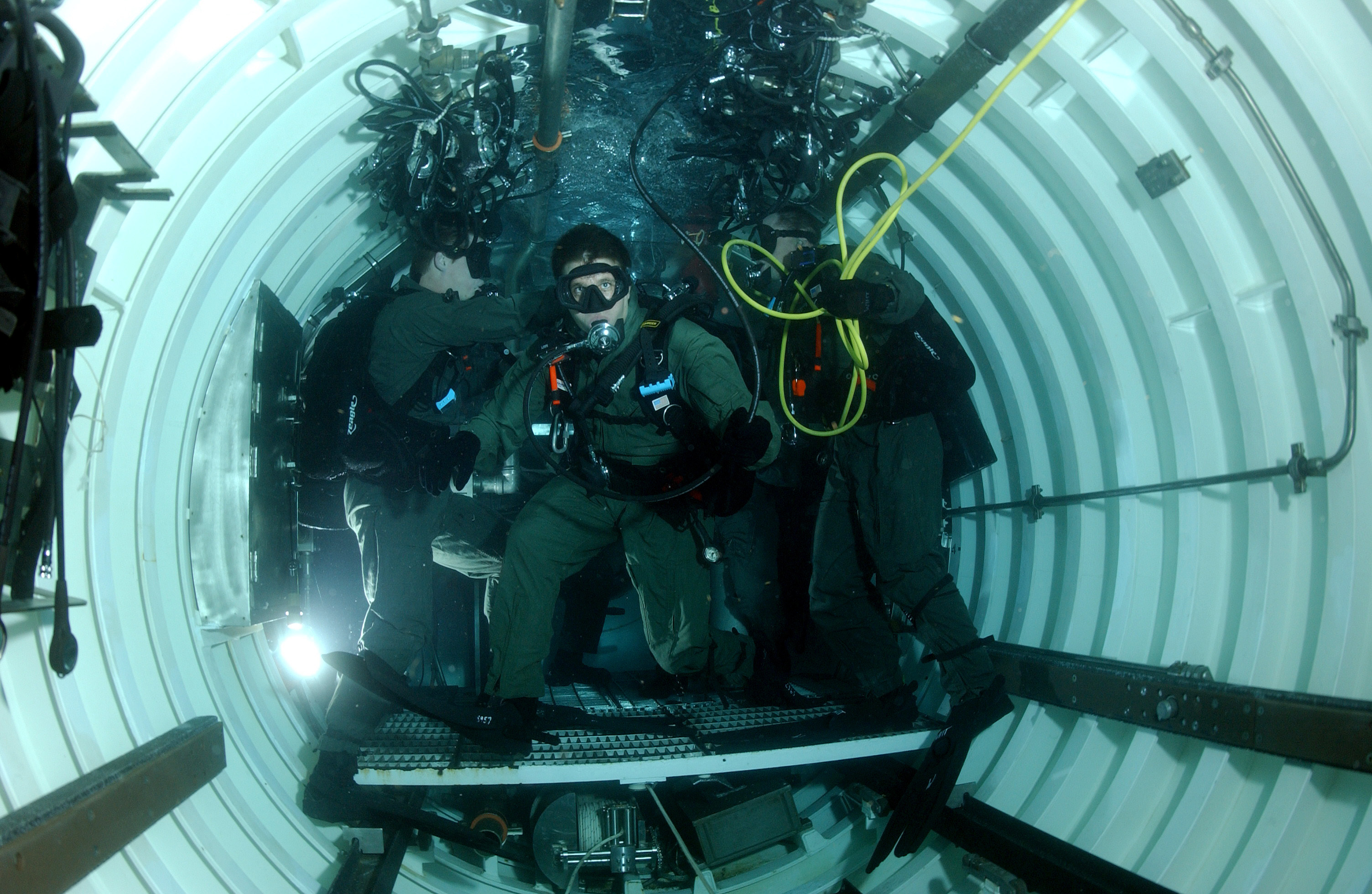 Atlantic Ocean (May 5, 2005) - Members of SEAL Delivery Vehicle Team Two (SDVT-2) huddle together inside a flooded Dry Deck Shelter mounted on the back of the Los Angeles-class attack submarine USS Philadelphia (SSN 690). Dry Deck Shelters (DDS) provide specially configured nuclear powered submarines with a greater capability of deploying Special Operations Forces (SOF). DDSs can transport, deploy, and recover SOF teams from Combat Rubber Raiding Crafts (CRRCs) or SEAL Delivery Vehicles (SDVs), all while remaining submerged. SDVT-2 is stationed at Naval Amphibious Base Little Creek, Va., and conducts operations throughout the Atlantic, Southern, and European command areas of responsibility. U.S. Navy photo by Chief Photographer's Mate Andrew McKaskle (RELEASED)